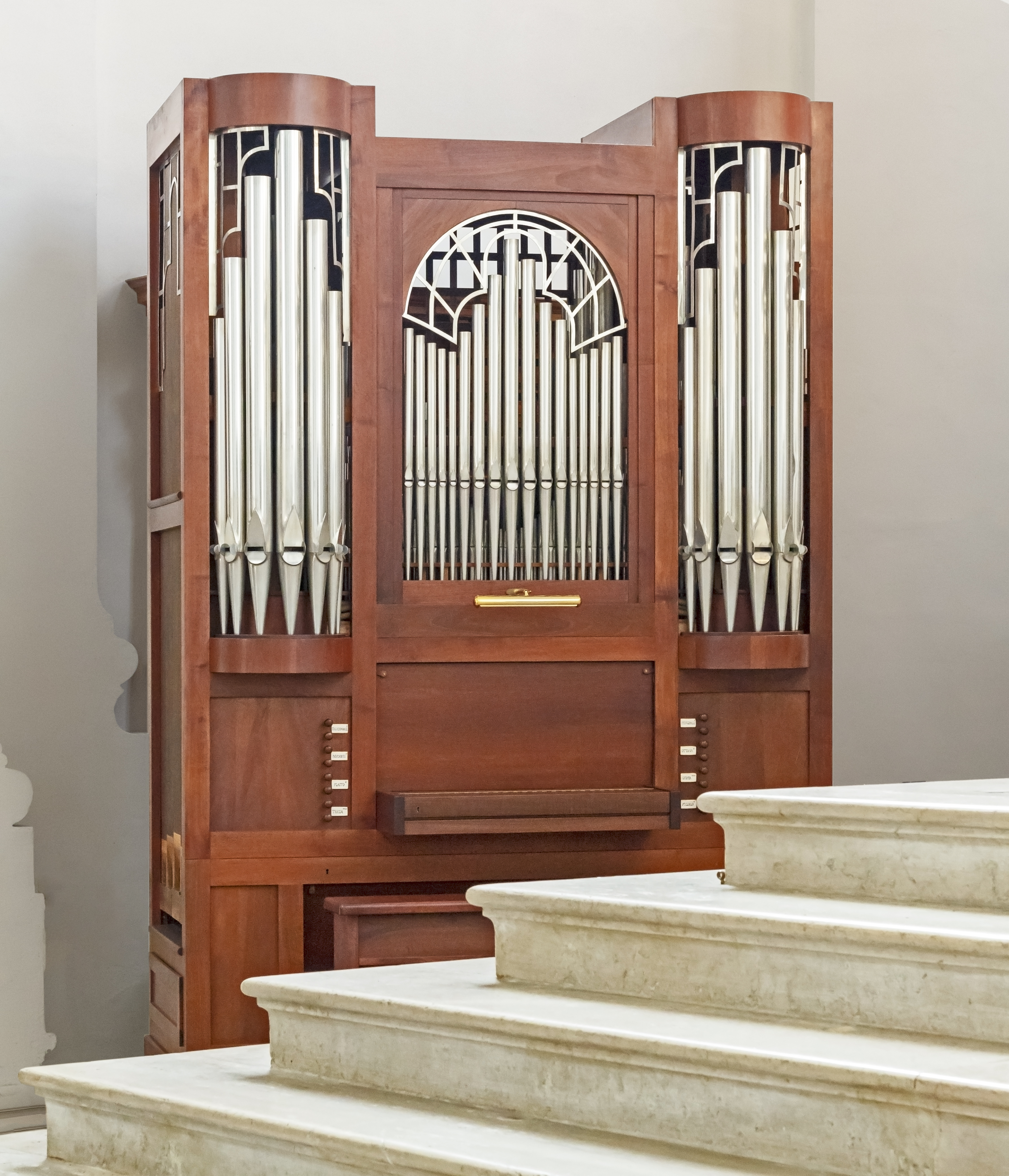 Padua Cathedral - Choir organ in the right arm of the transept.